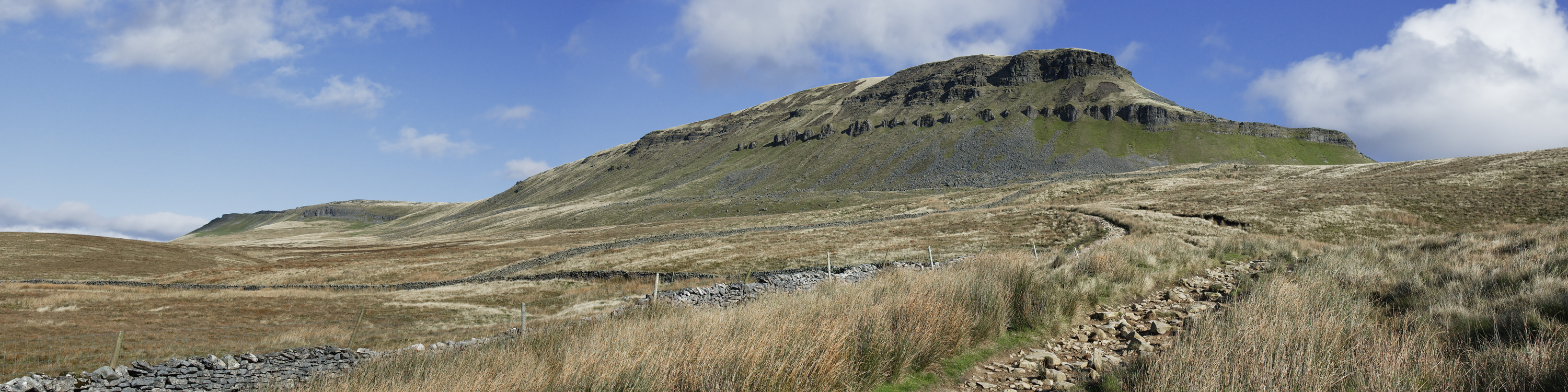 Panoramic view of Pen-y-ghent, scaled down for use on WP. Original image is over 1.6m x 0.4m, printed on Dibond.